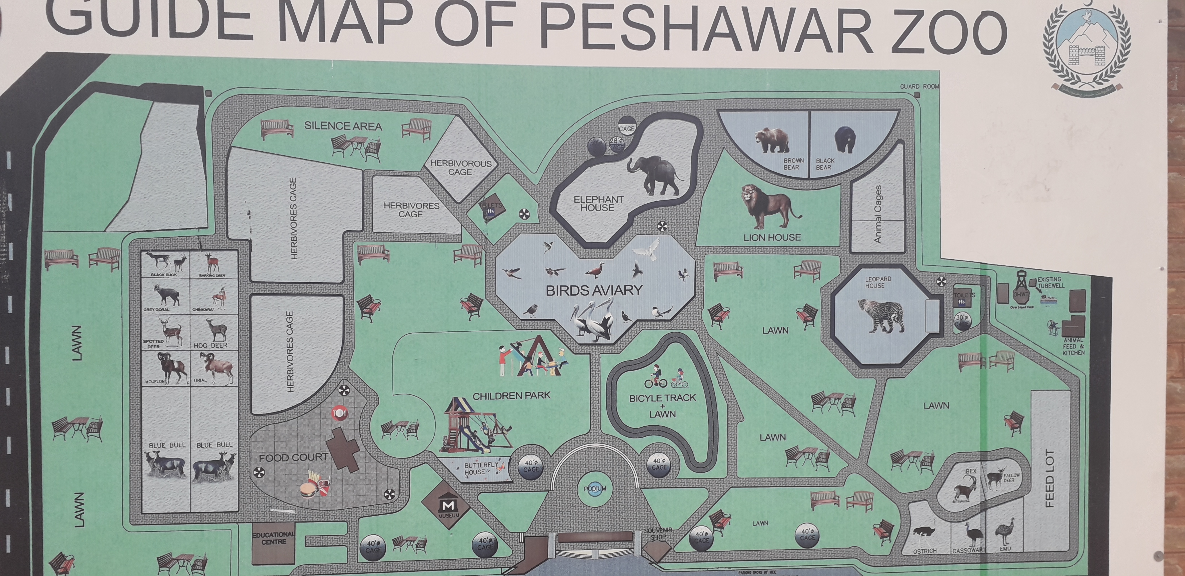 This map will help you to plan your tour and save your precious time.